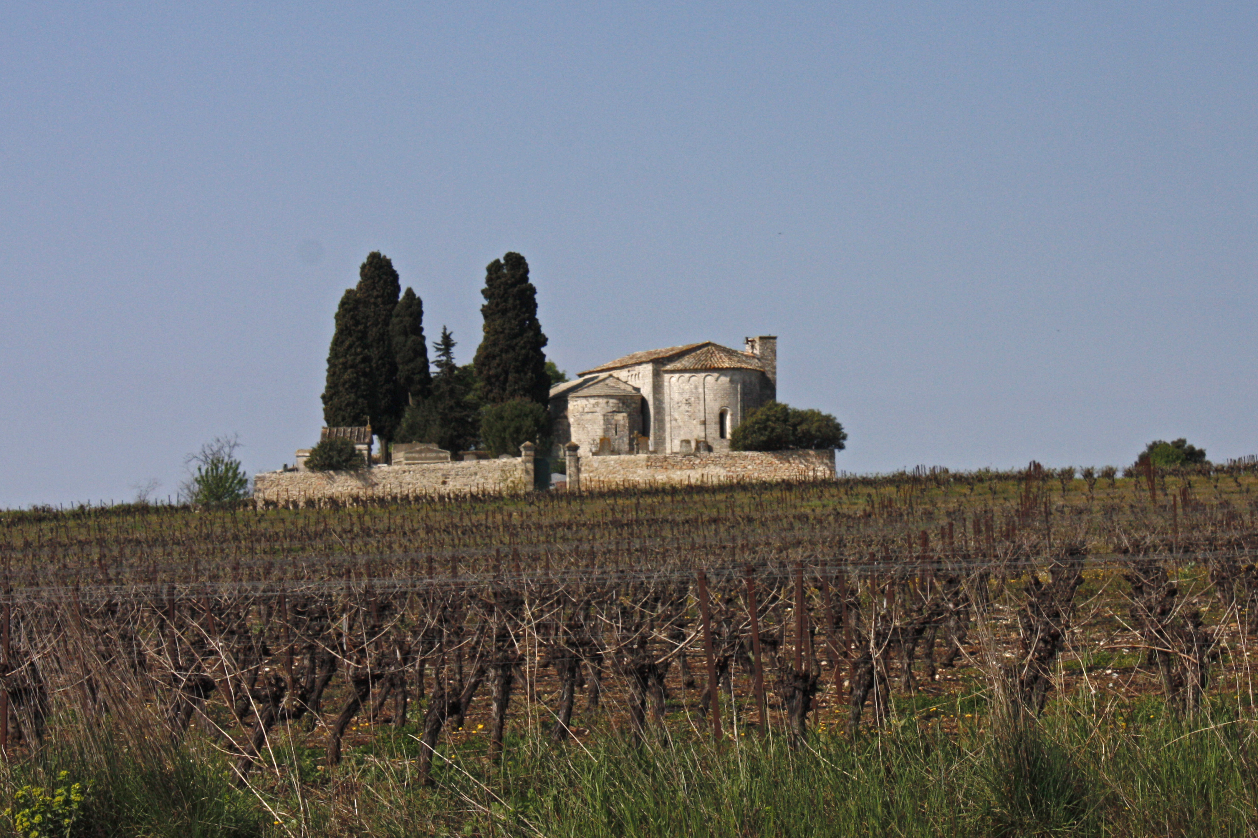 St. Julien of Montredon view from the road Salinelles.